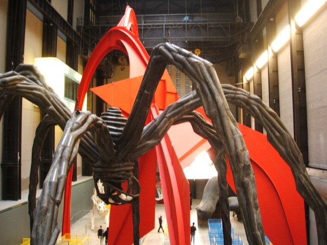 Spider ! "A nightmare unleashed at Tate Modern's Turbine Hall" is how one paper described this installation by Dominique Gonzalez-Foerster